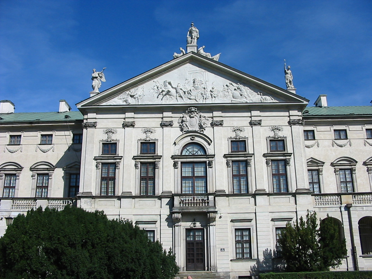 Krasiński Palace, Warsaw: Part of the western façade with the tympanon sculptured by Andreas Schlüter